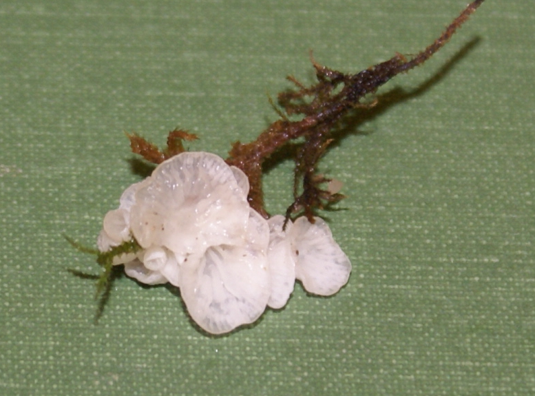 The mushroom Rimbachia bryophila (Pers.) Redhead. Specimen found in Lewis and Clark National Historical Park, Astoria, Oregon. "Notes: growing on moss…….."